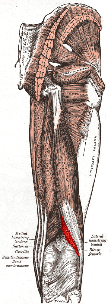 Muscles of the gluteal and posterior femoral regions with current muscle highlighted